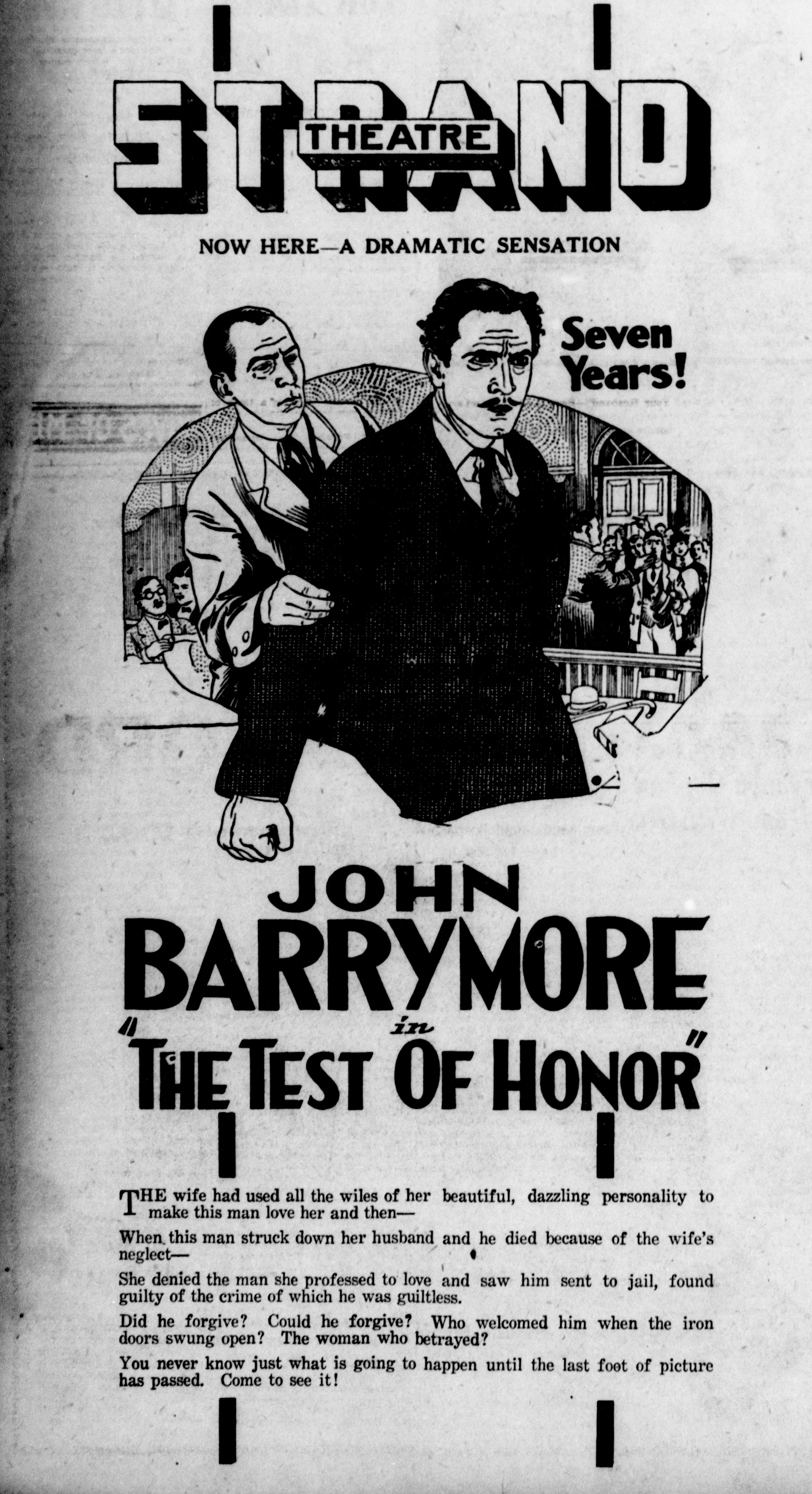 The Test of Honor is a 1919 American silent film drama directed by John S. Robertson. This is a newspaper advert.